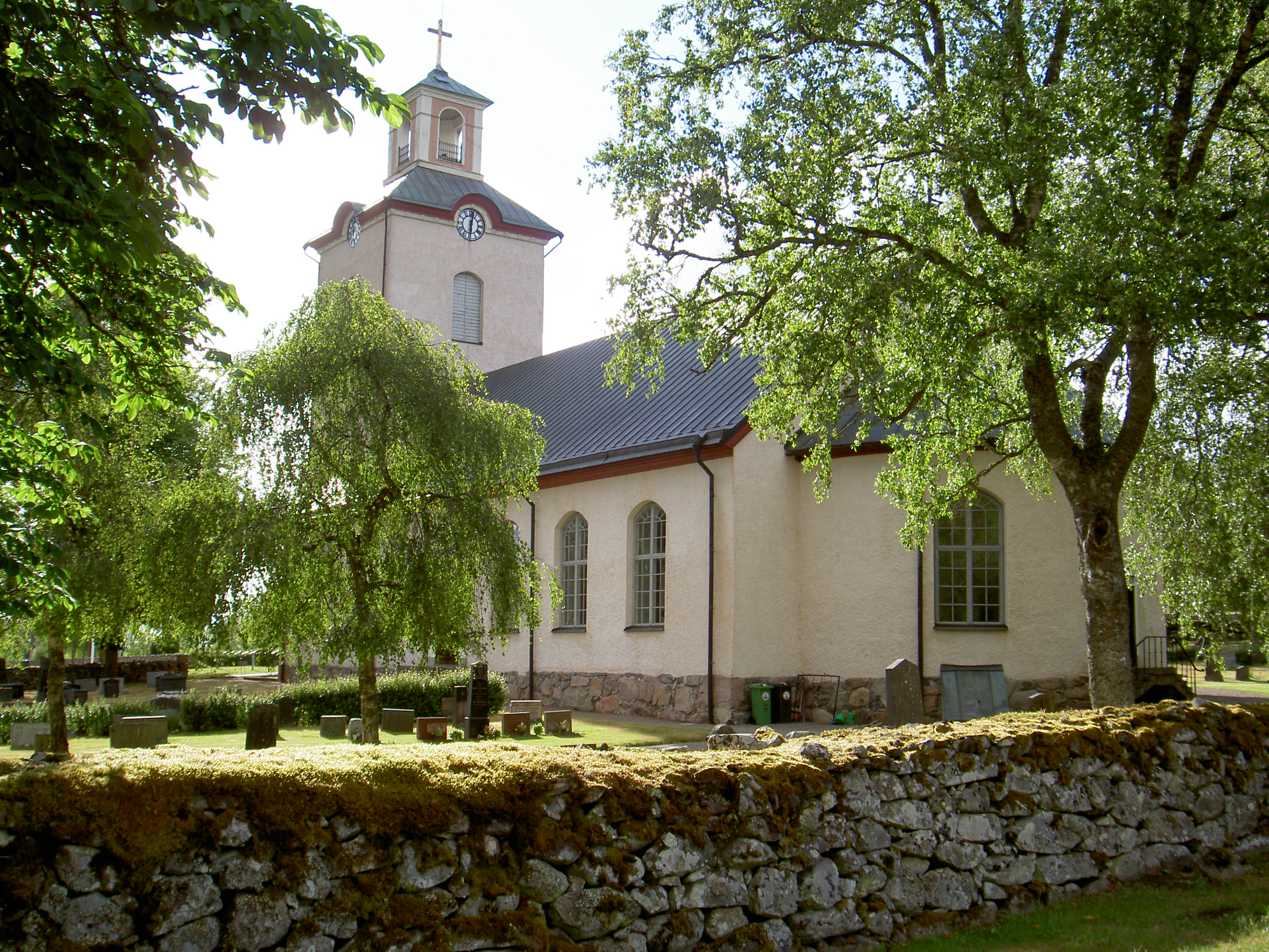 Nottebäcks Church.The Church was built in the empire style. in 1837 the Church was ready for consecration. Bishop Esaias Tegnér officiated the inauguration on 20 August of the same year.